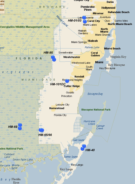 Map of Florida Nike missile sites